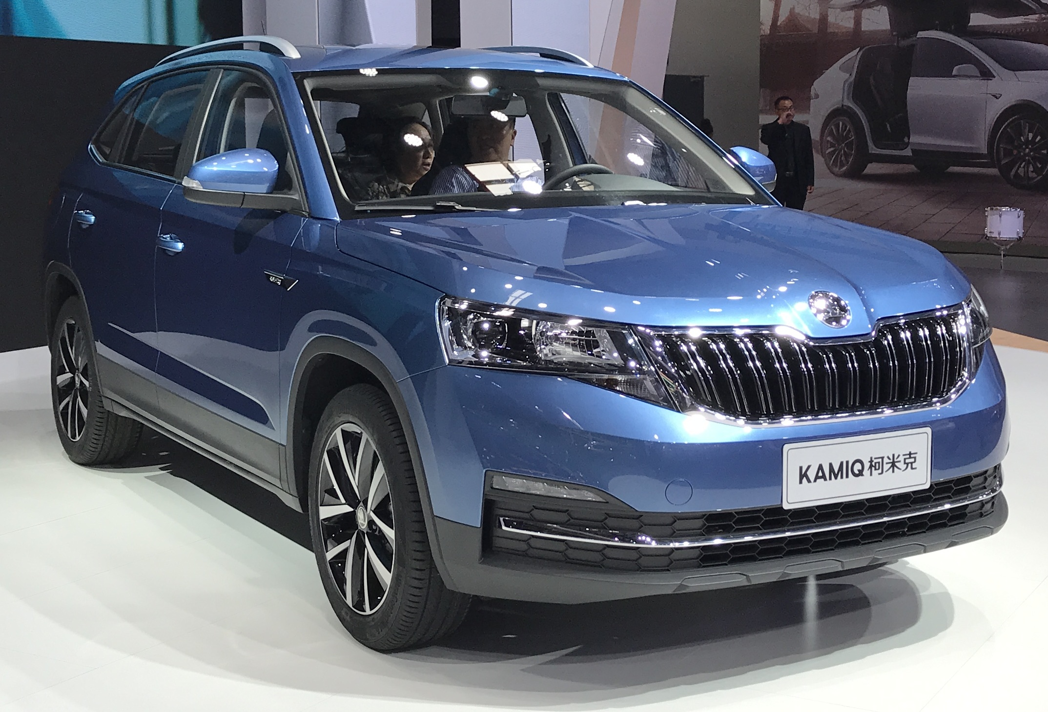 Skoda Kamiq